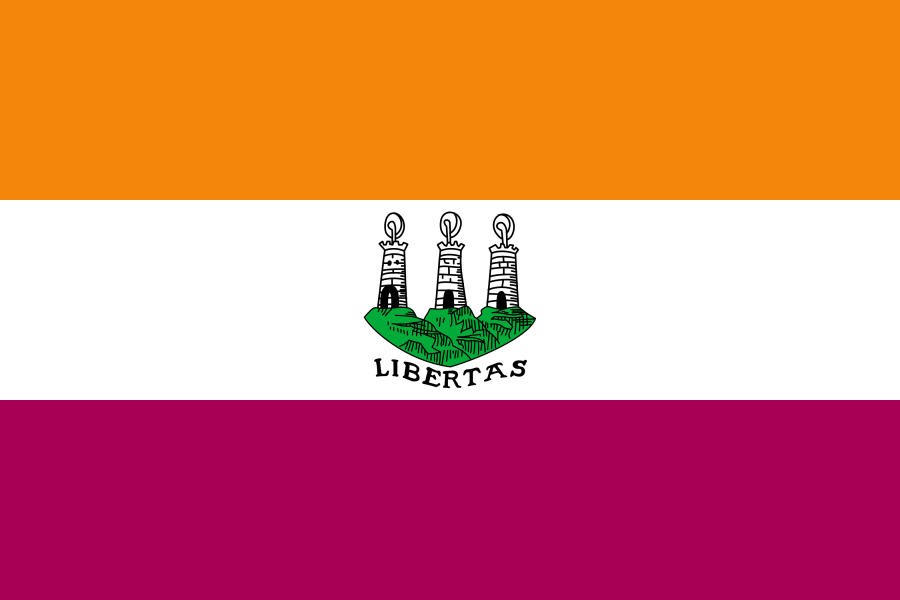 Reconstruction of a flag of San Marino in use from around 1465 to 1797